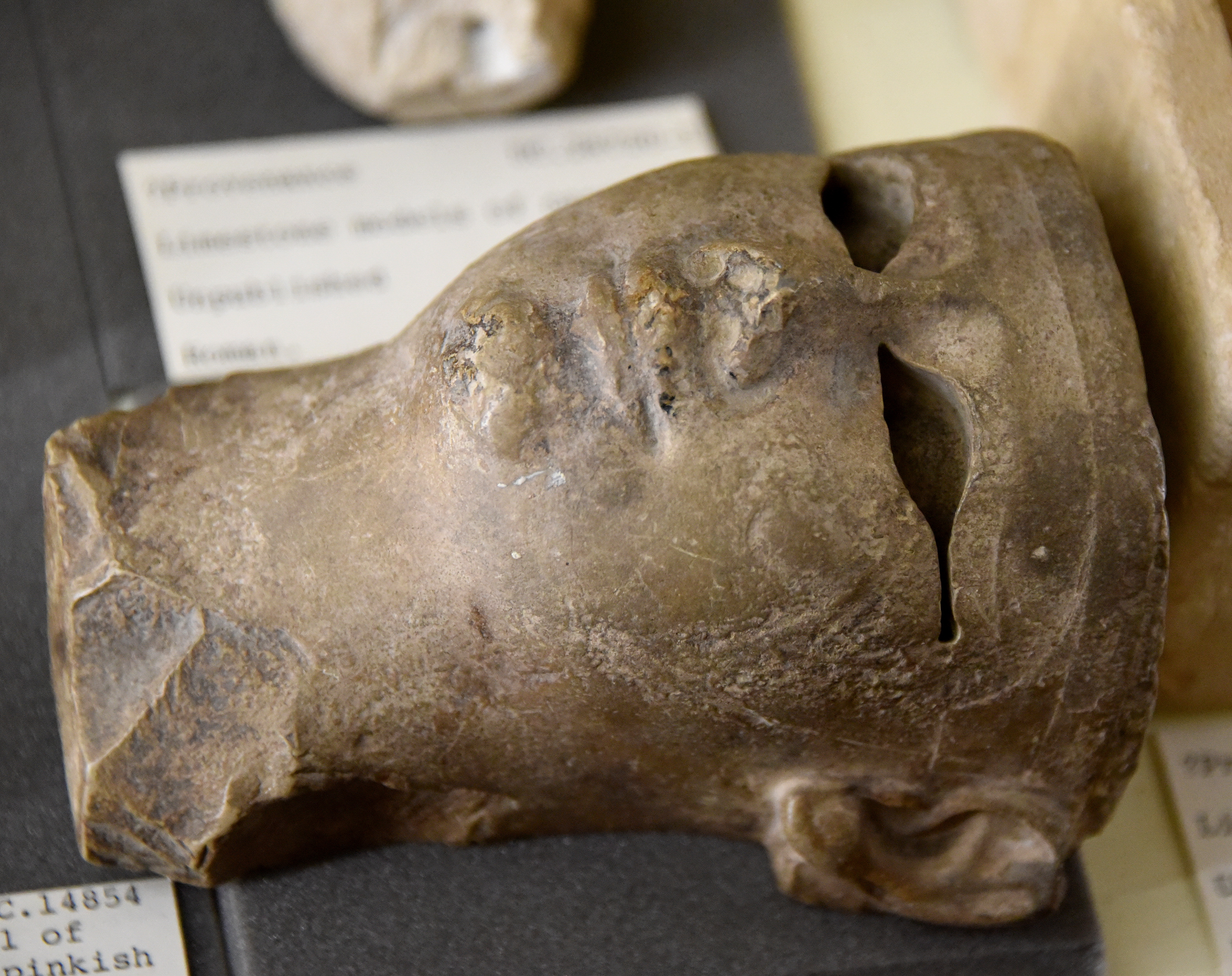 Female's face, probably a goddess. Sculptor's model, used for plaster casts. Possibly originally from a statue. Limestone. Ptolemaic period. From Egypt. The Petrie Museum of Egyptian Archaeology, London. With thanks to the Petrie Museum of Egyptian Archaeology, UCL.